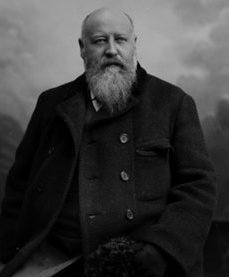 The Norwegian painter Christian Krohg.